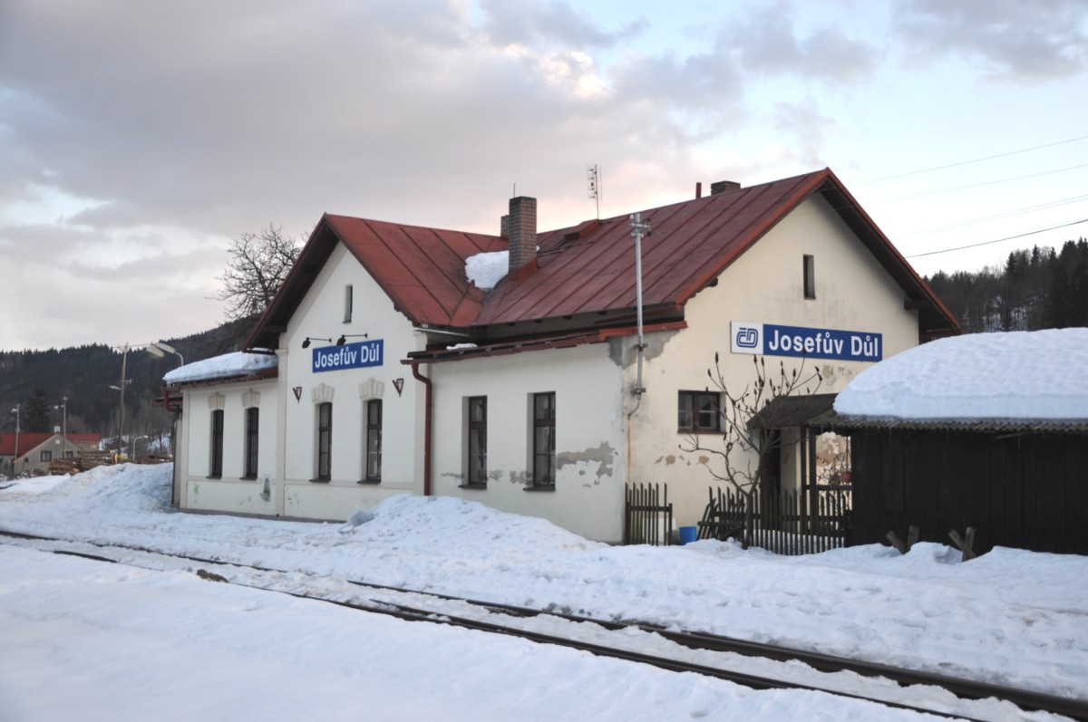 station Josefův Důl, czech republic